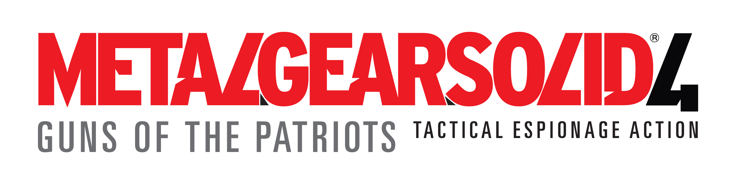 Logo used for Konami's Metal Gear Solid 4 video game (2008).